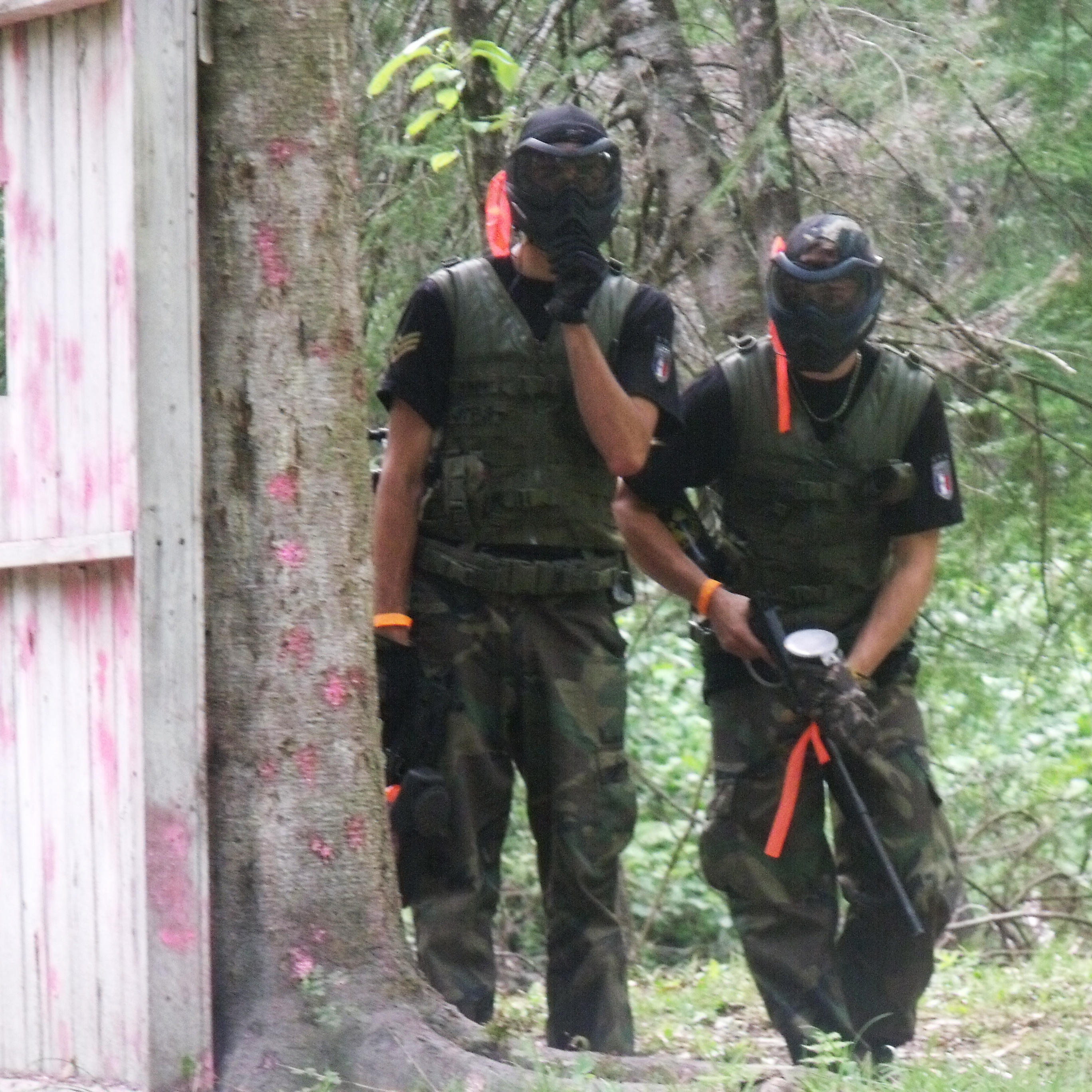 JTF3 in the 24 h big-game